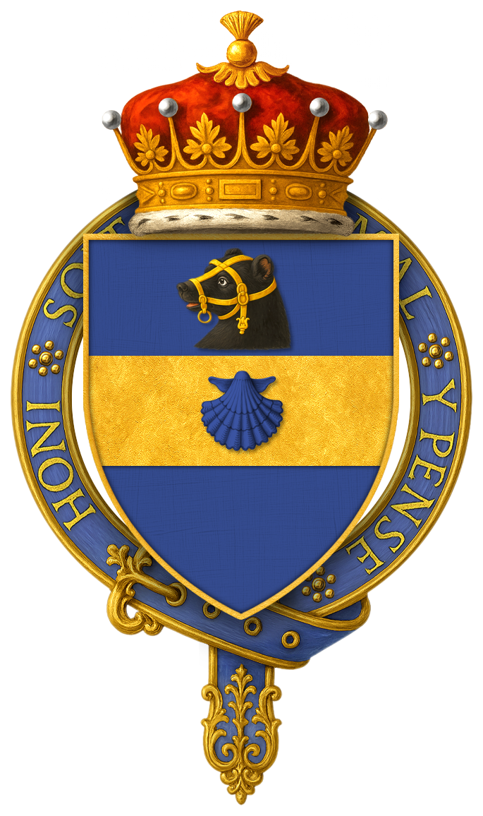 Coat of Arms of Rowland Baring, 3rd Earl of Cromer, KG, GCMG, MBE, PC